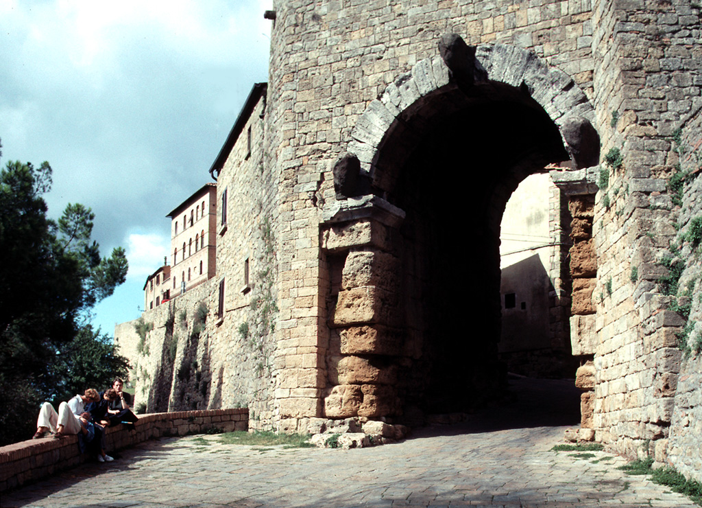 Port all' Arco, located in the town of Volterra in the province of Pisa/Italy